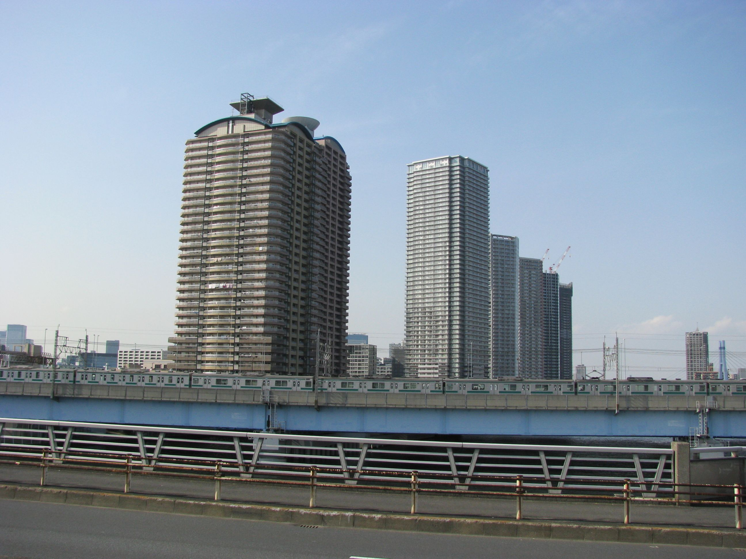 Buildings in Shinonome, in Kōtō, Tokyo, Japan.